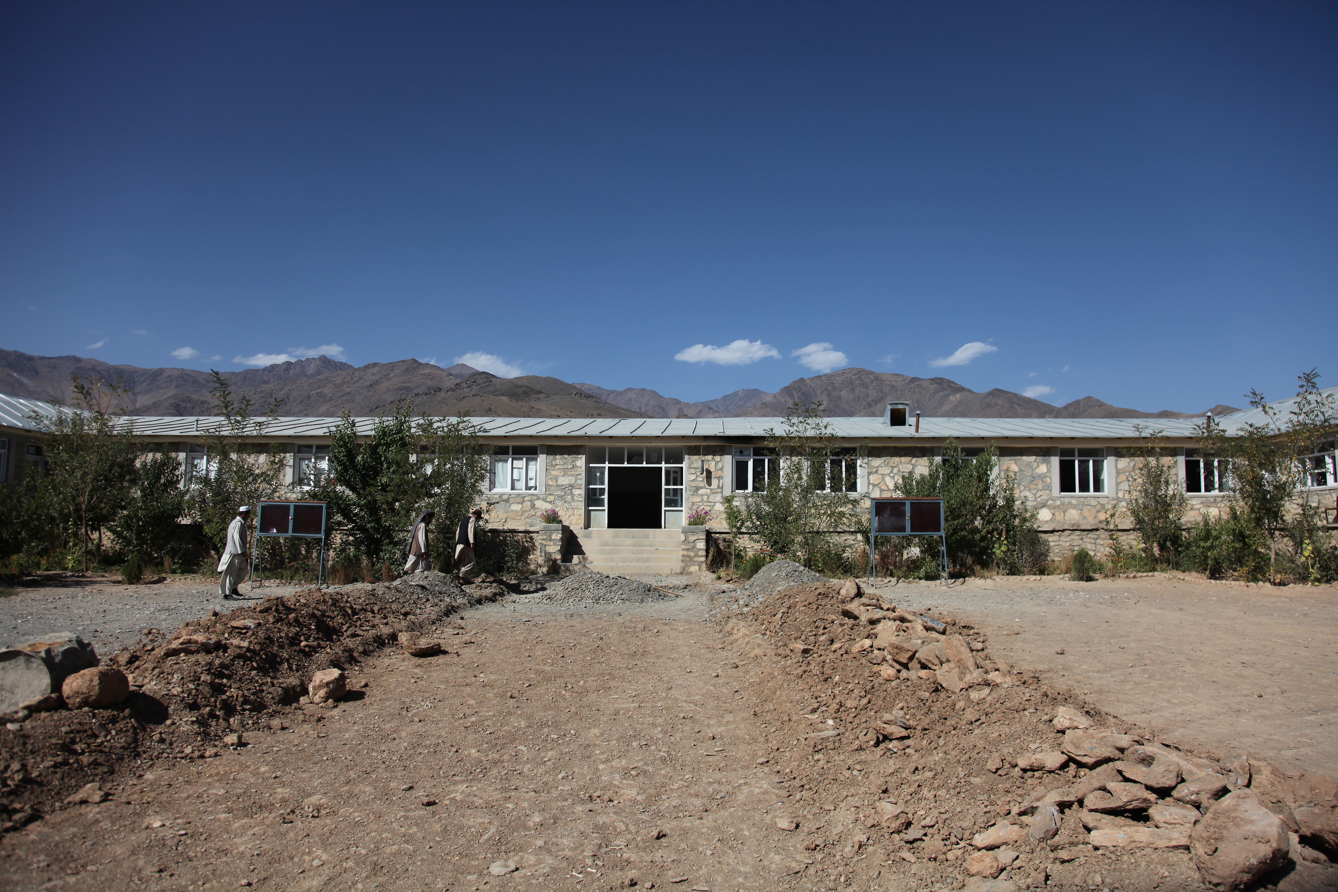 A school in Jalrez, in the Wardak province of Afghanistan is in the final stage of construction on Sept. 30. The school was build with funds by the Afghan Public Protection Program. The AP3 program was designed to increase security, empower local residents and encourage them to play a larger role in protecting their villages and keeping insurgents out of Wardak Province. (Photo ID: 208879)